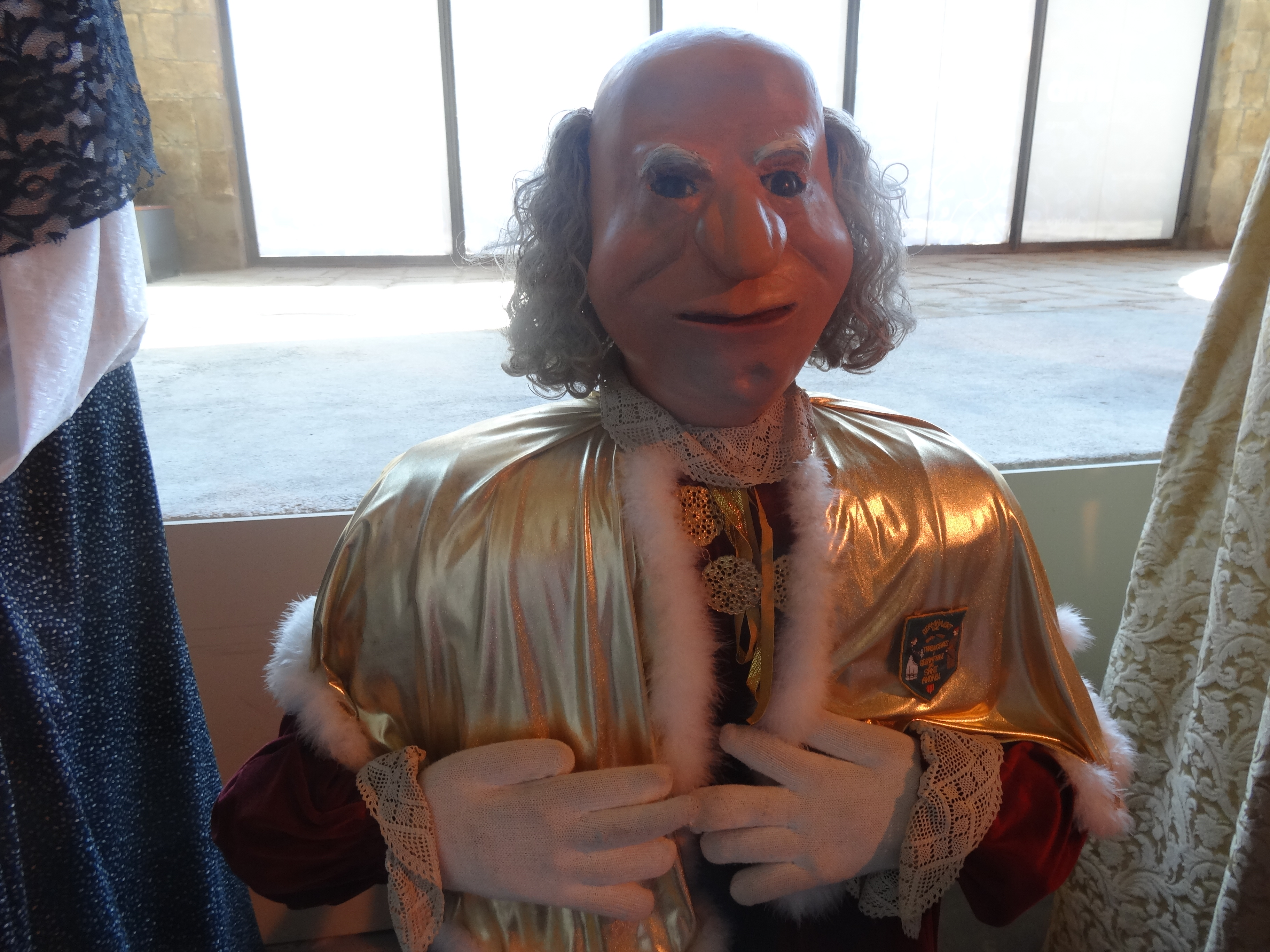 Exhibition of Giants at the Museu Marítim, Barcelona, 2013.